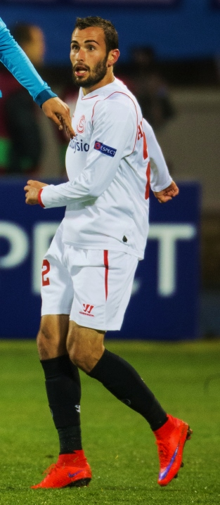 Aleix Vidal